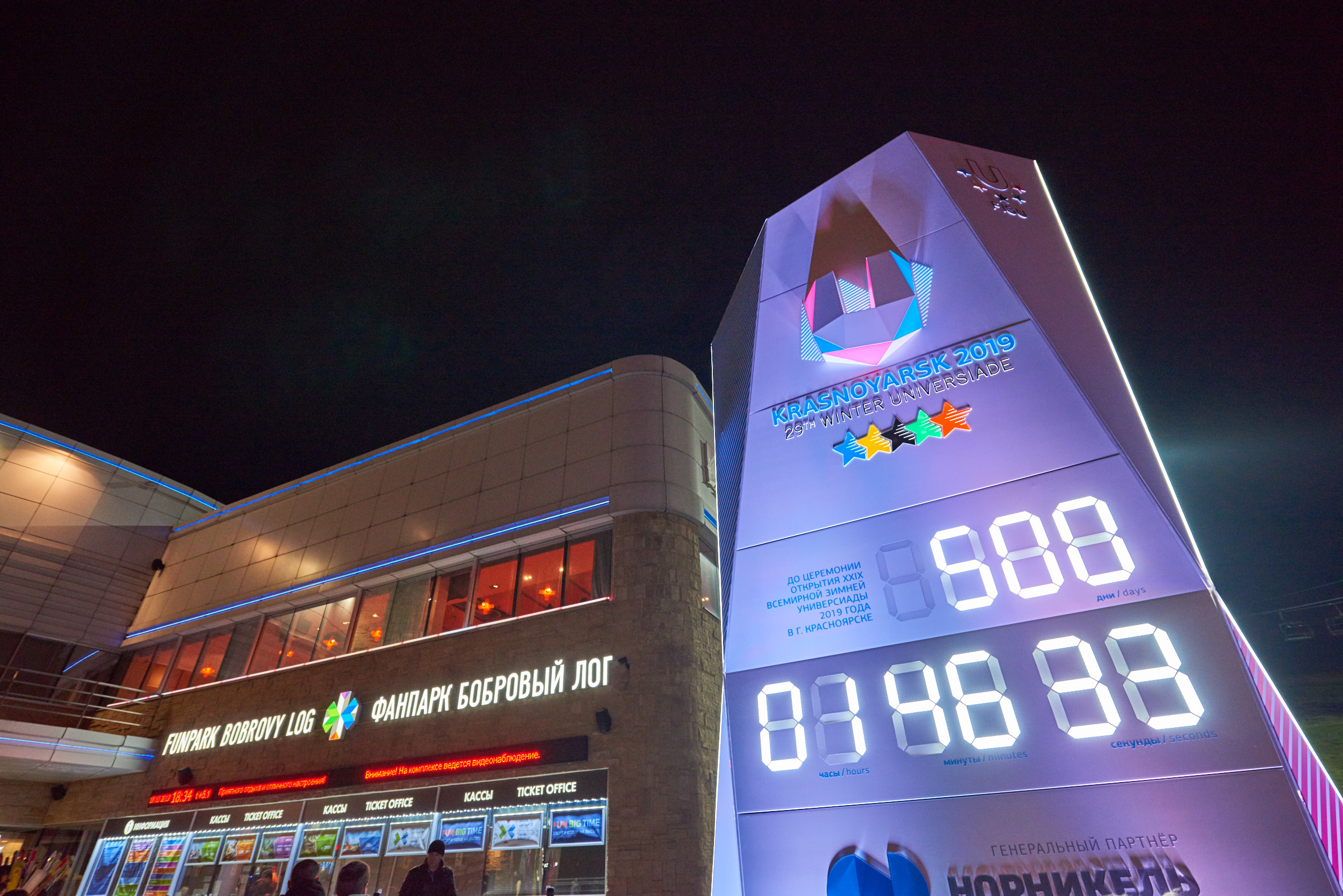 500 days before the start of the 29th Winter Universiade 2019 was celebrated today in Krasnoyarsk. On this day, the launch of social and cultural projects dedicated to the Student Games took place, and an entertainment program was organized for guests and residents of the city.